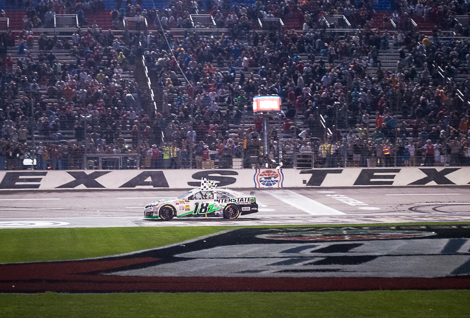 Kyle Busch celebrates after winning the NRA 500 at Texas Motor Speedway in 2013.